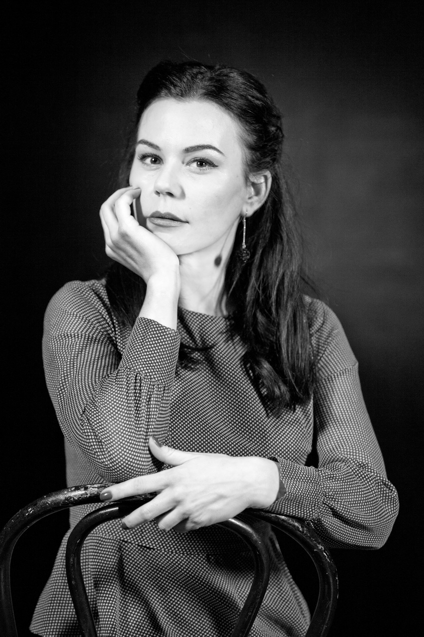 Jovana Stipić, an actress Srpski (latinica): Jovana Stipić, glumica Српски (ћирилица): Јована Стипић, глумица